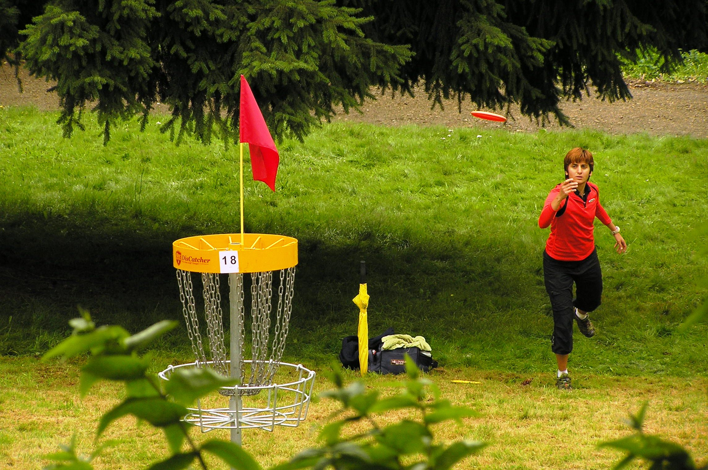 Hole 18 putt at the European Discgolf Championship 2007 in Belgium